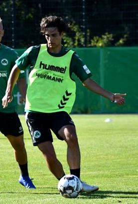 Elias Abouchabaka at Greuther Fürth Training in August 2018